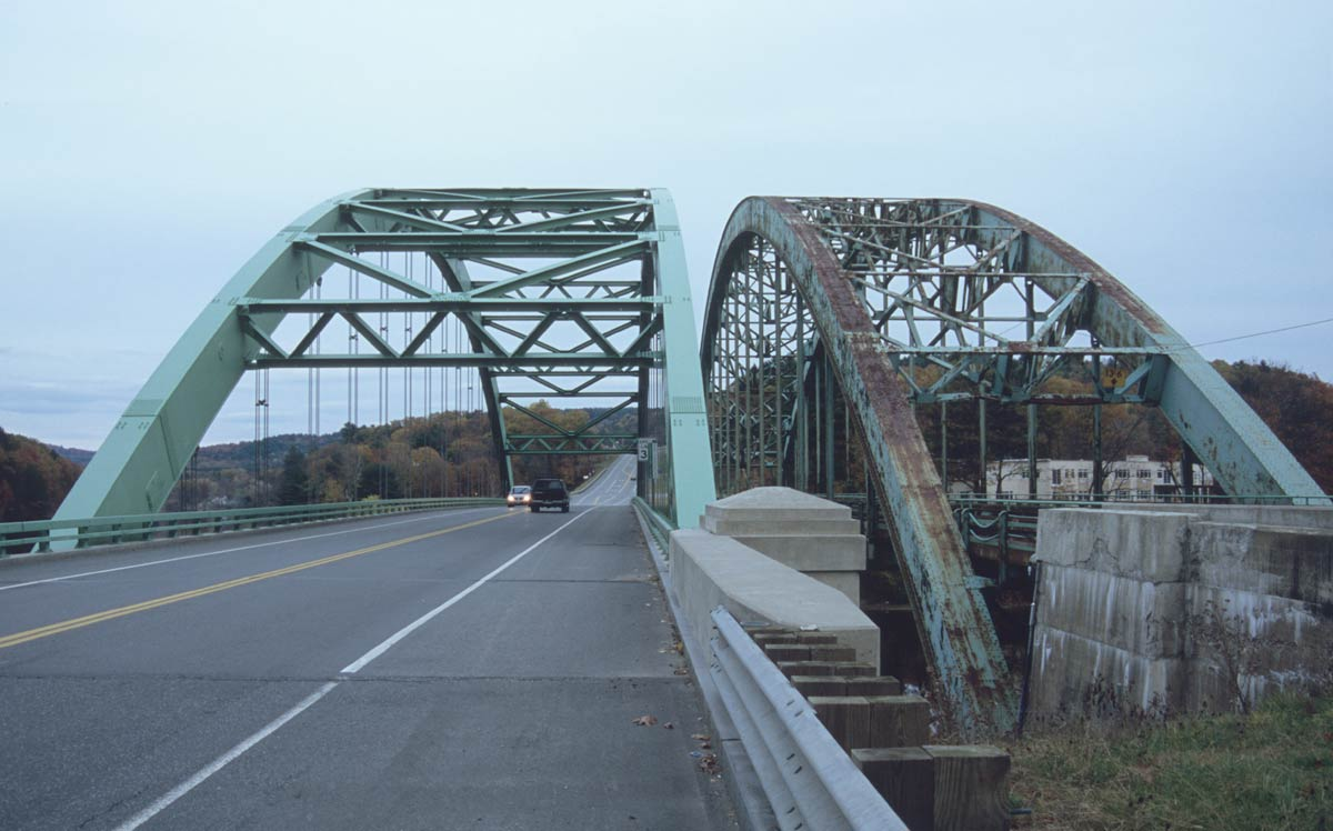 United States Navy Seabees Bridges between Brattleboro, Vermont and Chesterfield, New Hampshire. The bridge on the right was completed in 1937 and was supplanted by the 2003 bridge on the left. The 1937 bridge is now a pedestrian bridge.